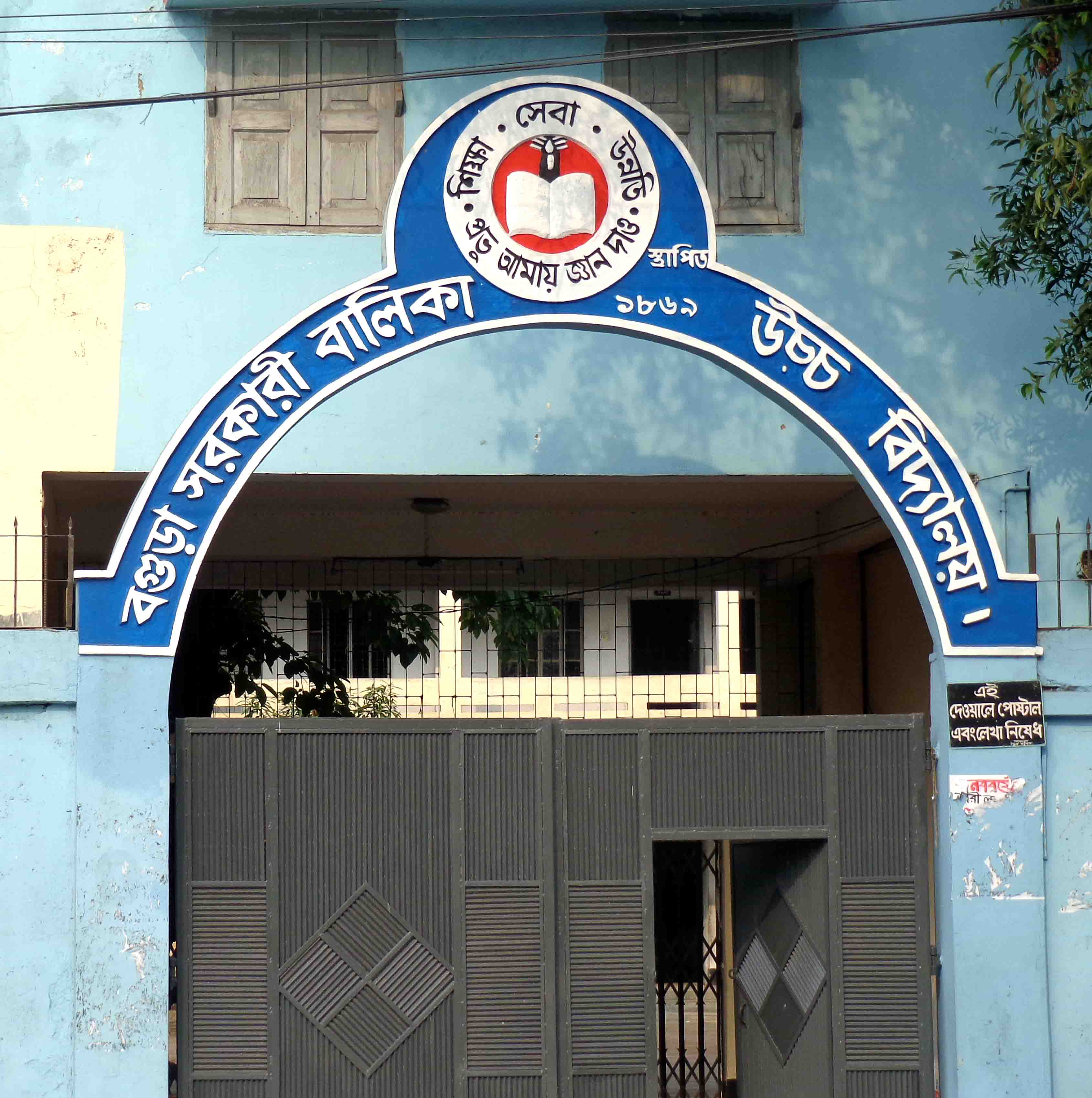 বগুড়া সরকারী বালিকা উচ্চ বিদ্যালয়